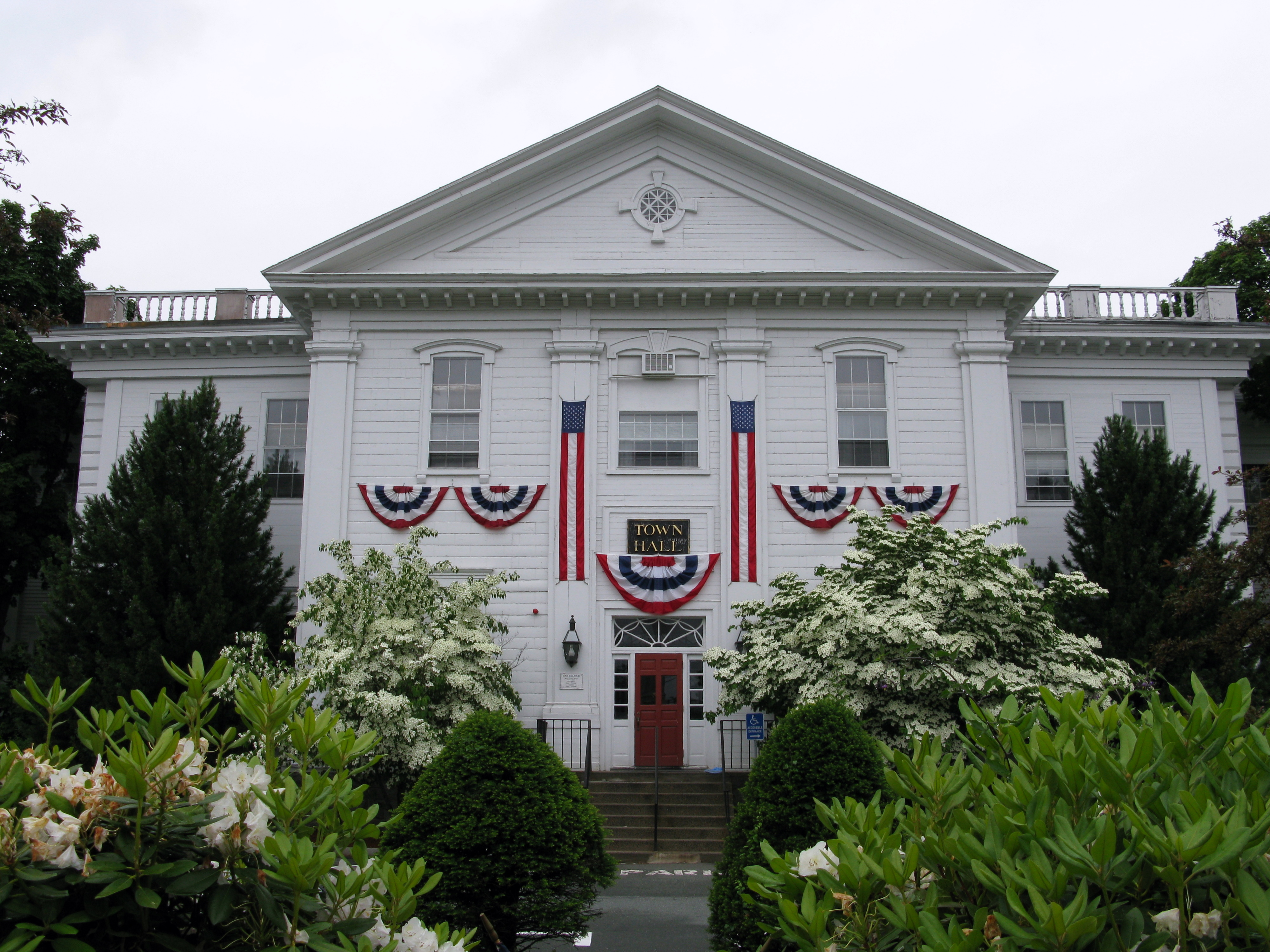 Danvers Town Hall 1 Sylvan Street Danvers, Massachusetts This building served as a school and library as well as Town Hall Greek Revival Emmerton and Foster, 1855 Massachusetts Cultural Resource Information System, DAN.214